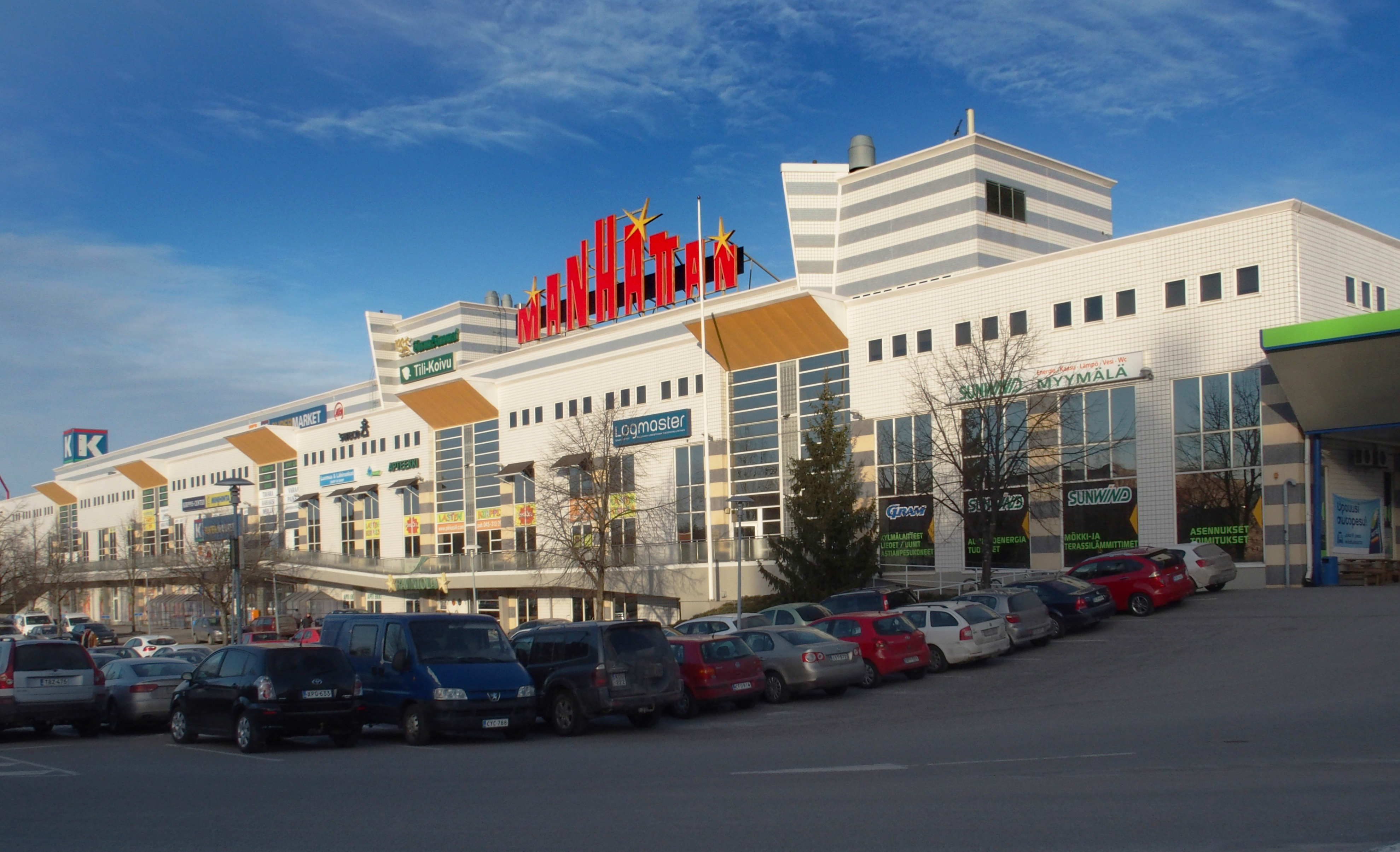 Architects Casagrande & Haroma, 1990. Address Pitkämäenkatu 4.